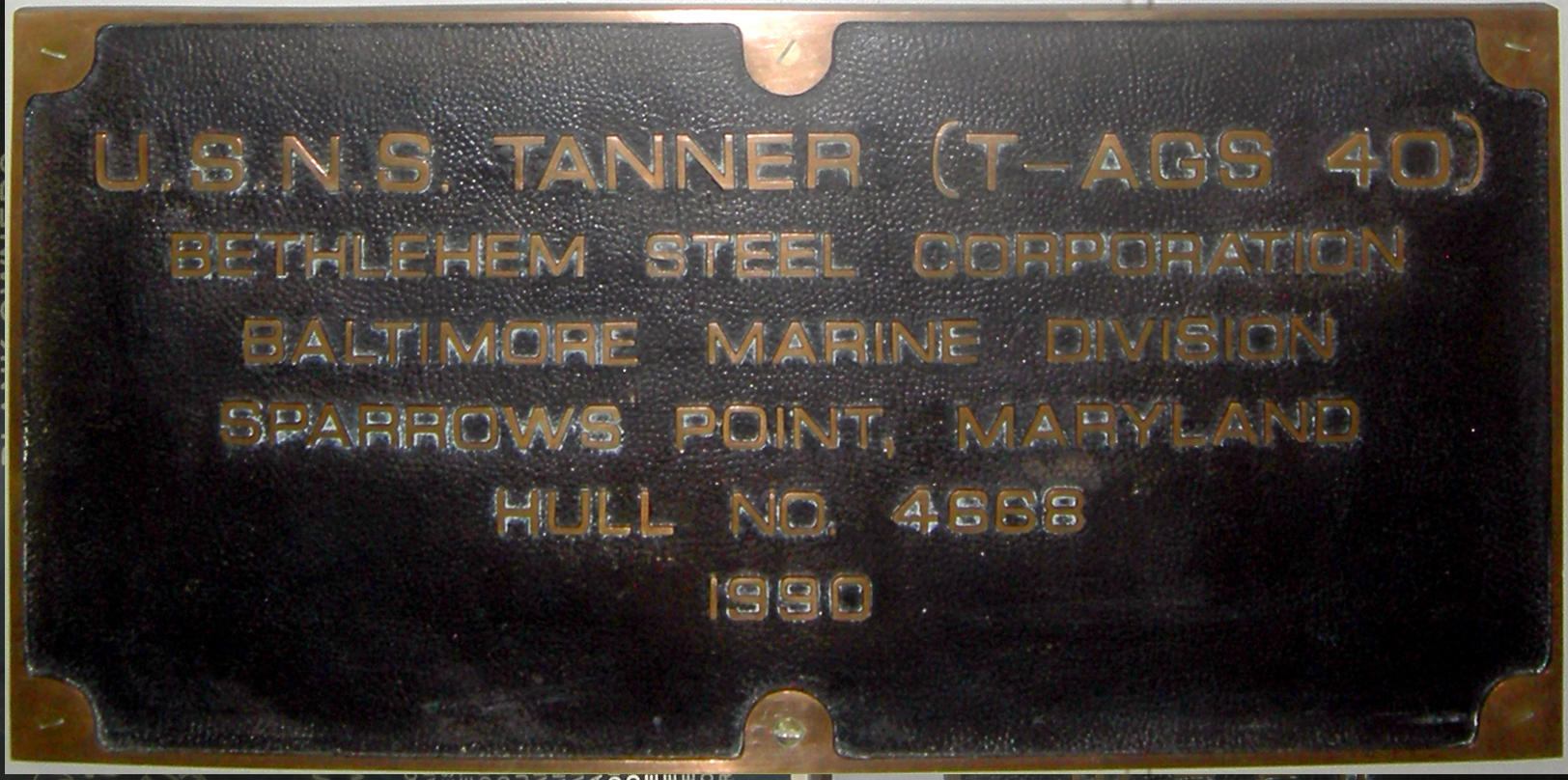 TS State of Maine shipbuilder's plate (as USNS Tanner) 1990